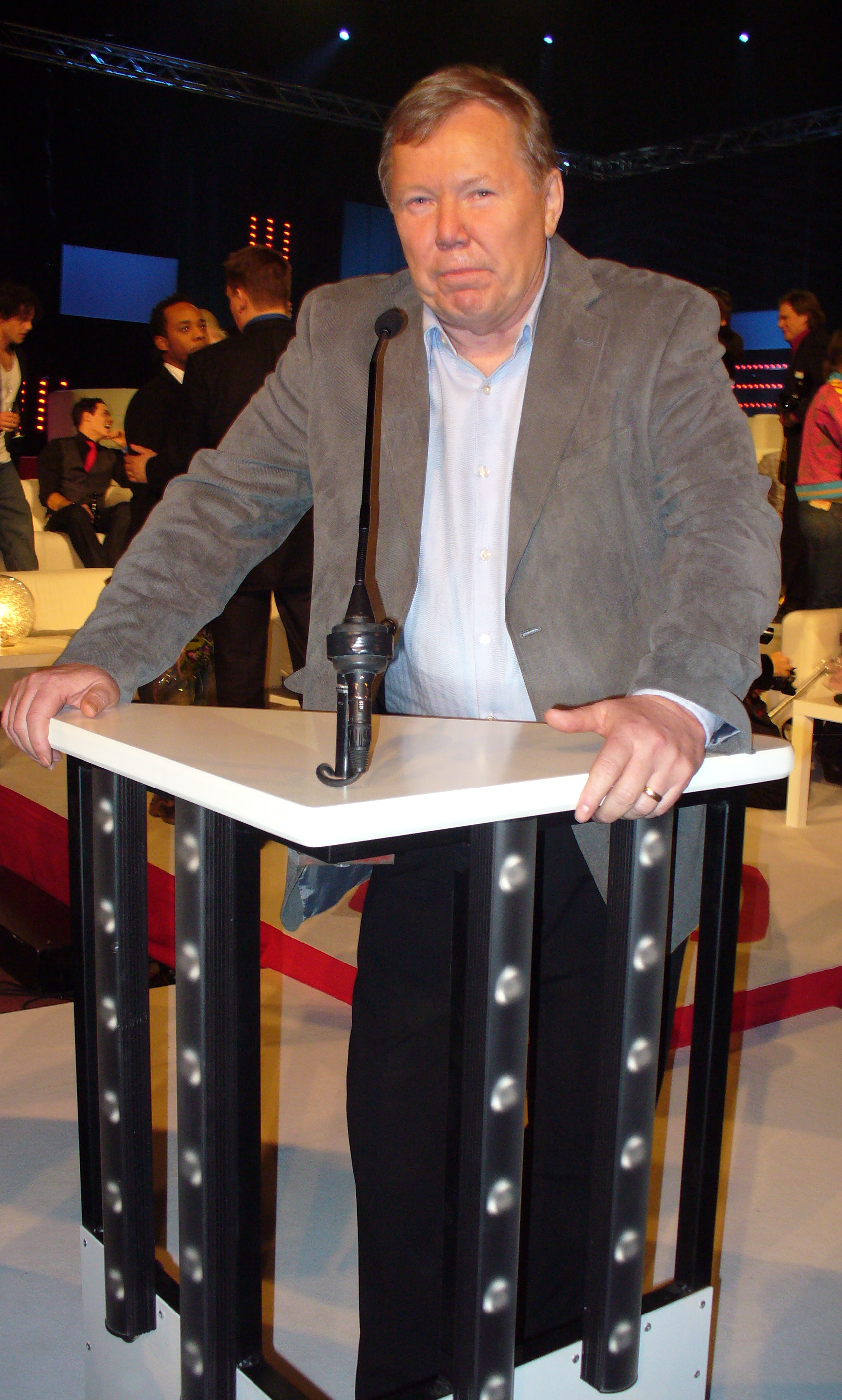 Bert Karlsson at the Swedish TV awards 2007